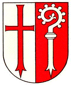 Coat of arms of Kreuzlingen